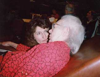 Gini Laurie and Joan Headley conferring at the 1989 GINI conference, St. Louis, Missouri